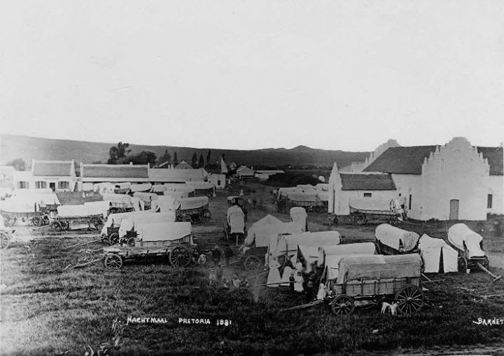 First church on Market square (church square), Pretoria 1881